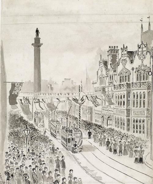 Opening of the Hull Electric Tramway, St John's Street, 1899